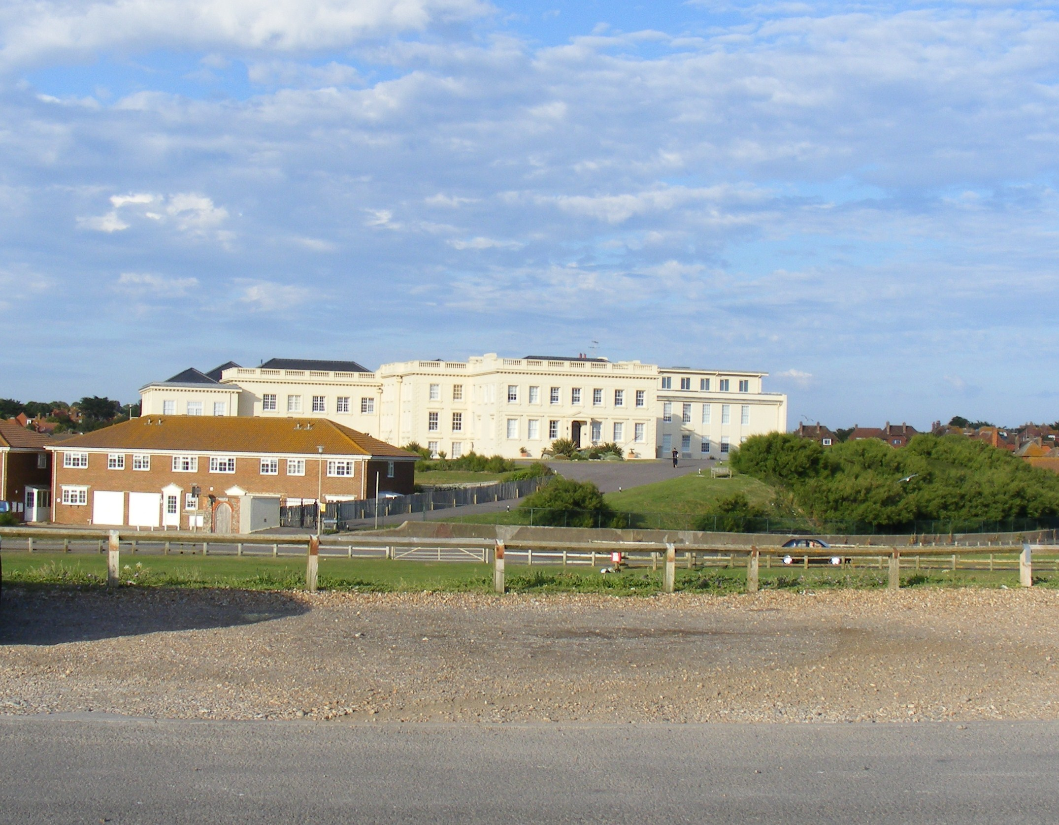 Corsica Hall, Seaford This fine building has recently been subject to extensive renovations and now contains a number of self-contained flats.